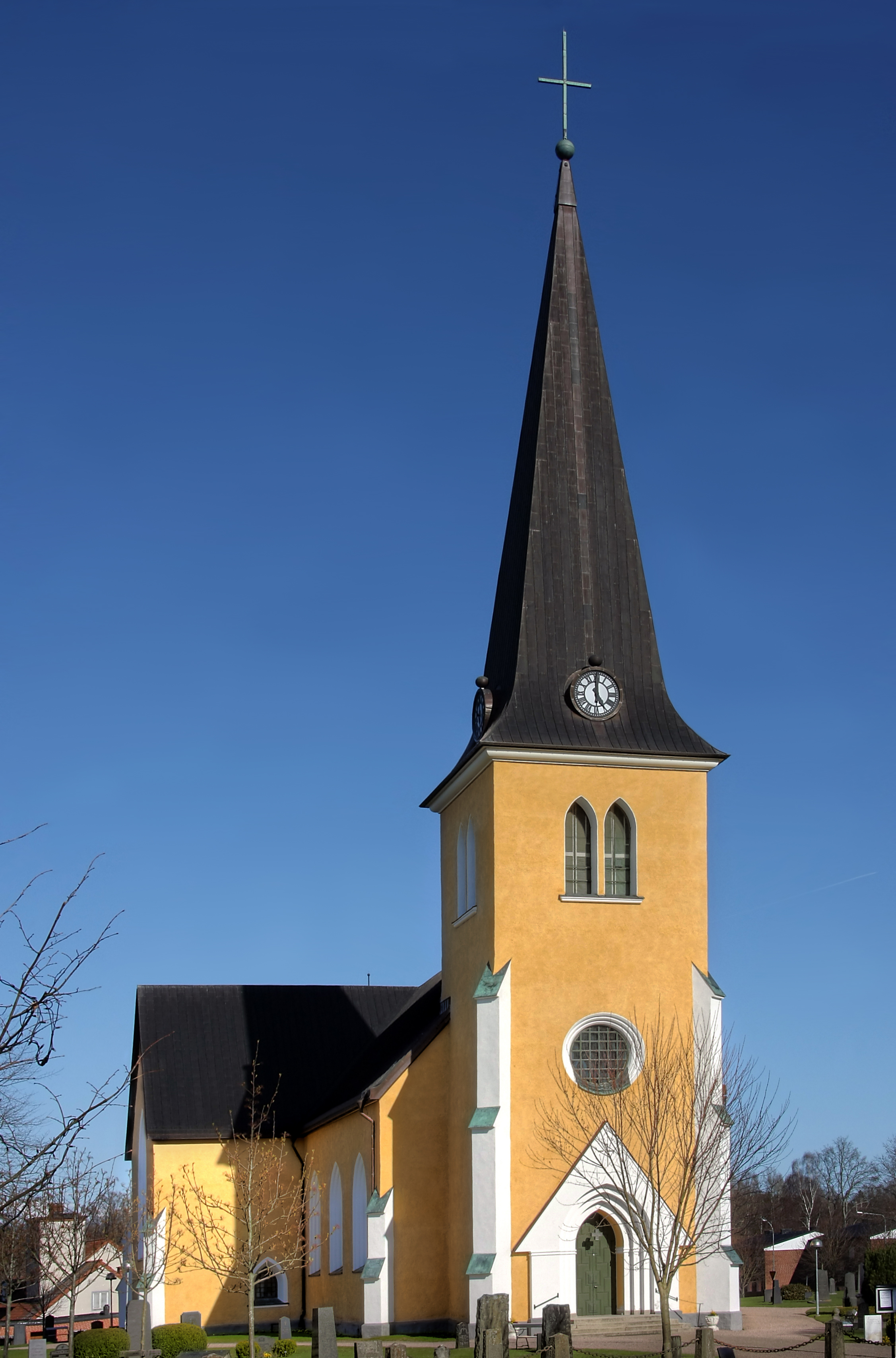 Östra Broby kyrka, parish church in Broby in Scania, Sweden.